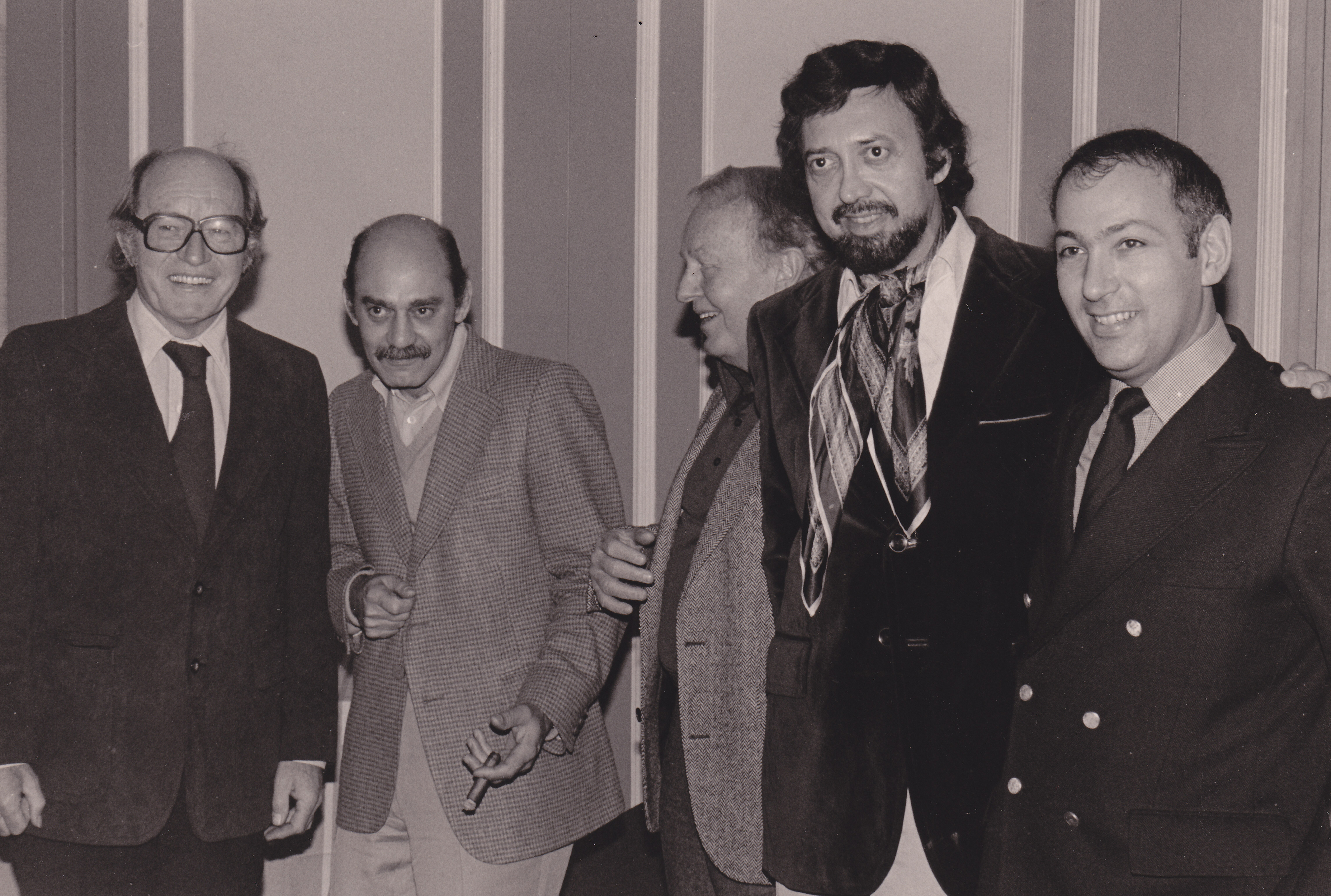 Reception at Britannia Hotel, London, October 1978 to celebrate the publication of the first edition of 'The Jazz Guitar, Its Evolution, Players and Personalities since 1900'.